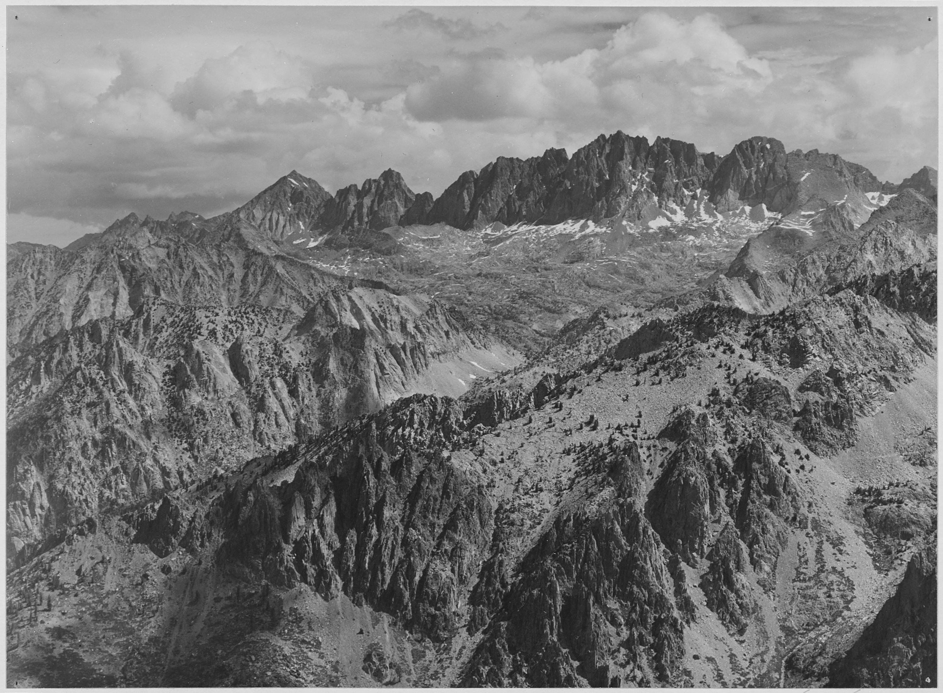 "North Palisade from Windy Point, Kings River Canyon (Proposed as a national park)," California, 1936.; From the series Ansel Adams Photographs of National Parks and Monuments, compiled 1941 - 1942, documenting the period ca. 1933 - 1942.